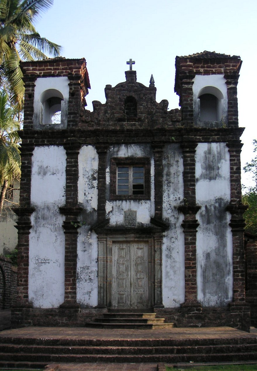 Saint Catherine's Chapel in Velha Goa, Goa, India